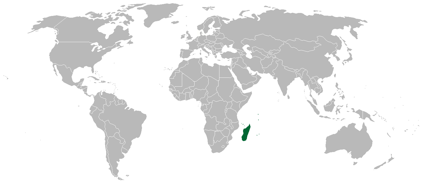 en map of members of Indian Ocean Commission